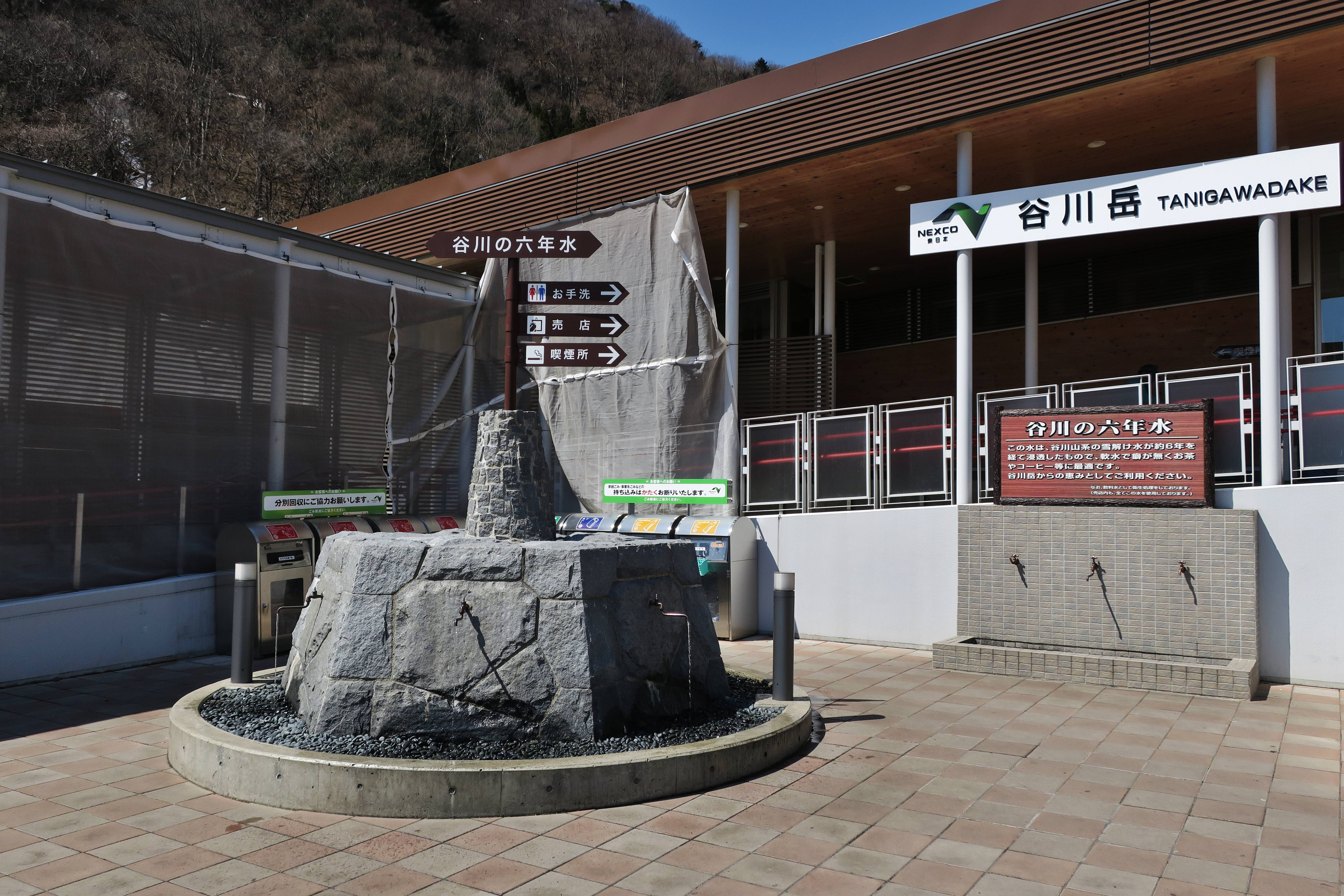 Tanigawadake Parking Area (down).